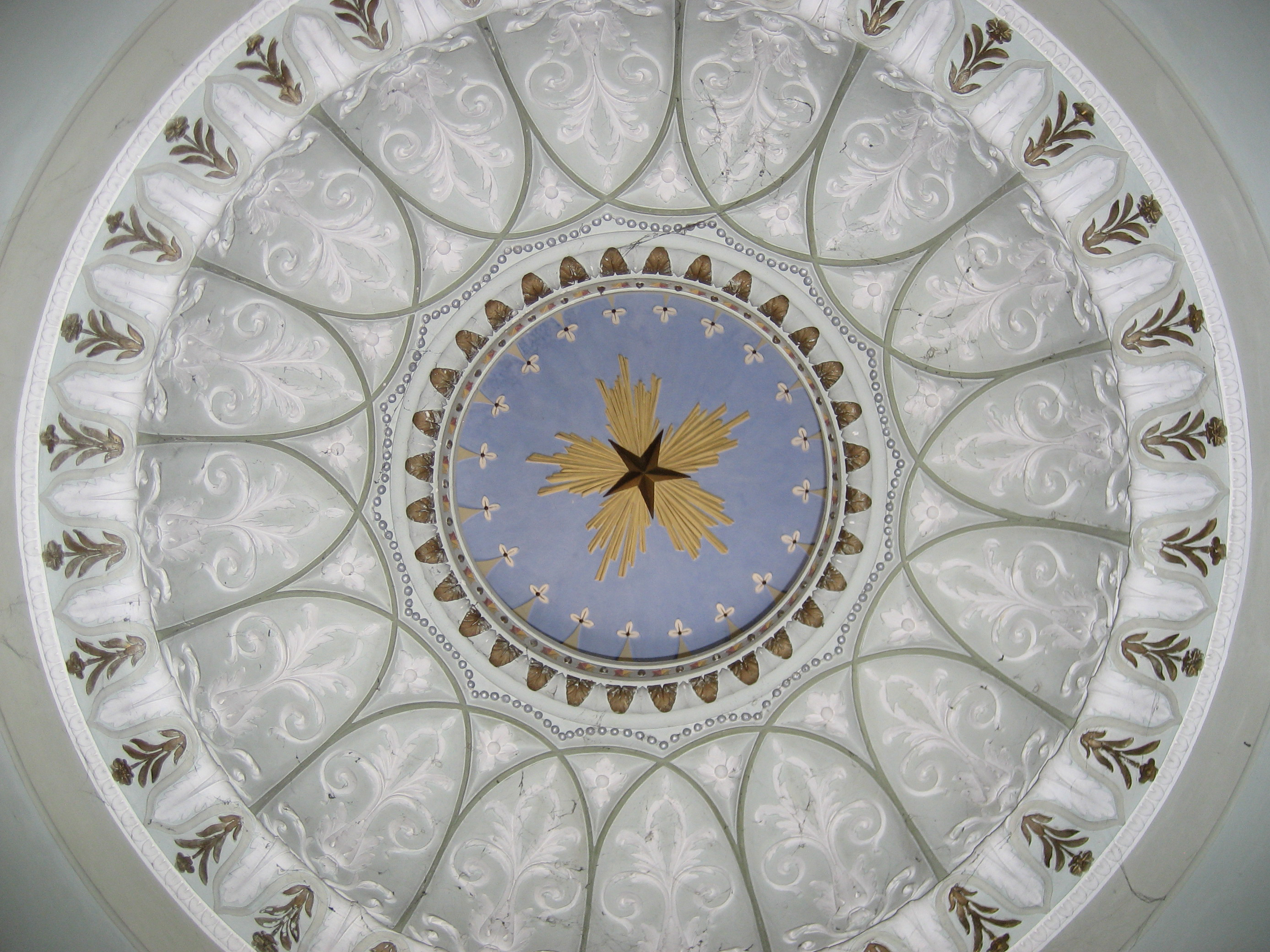 Mosque, Castle Garden of Schwetzingen, Interior view of the small dome